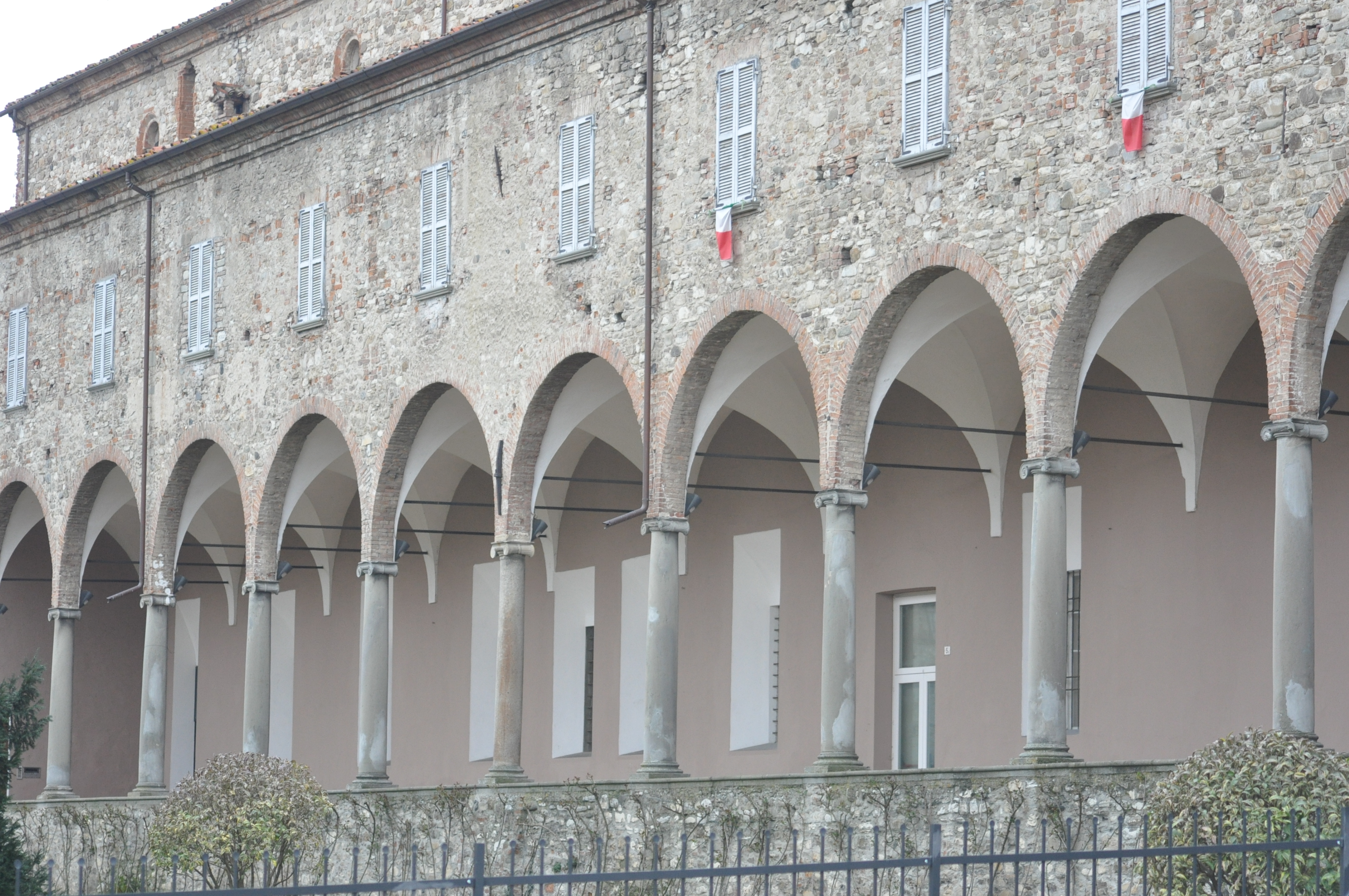 Abbey of Saint Columbanus in Bobbio